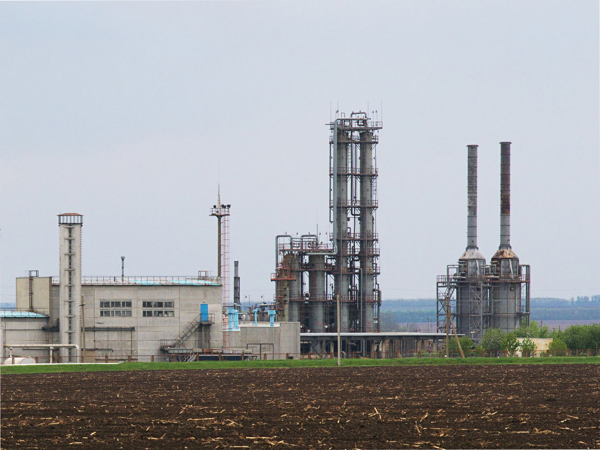 solohiv natural gas field processing plant.